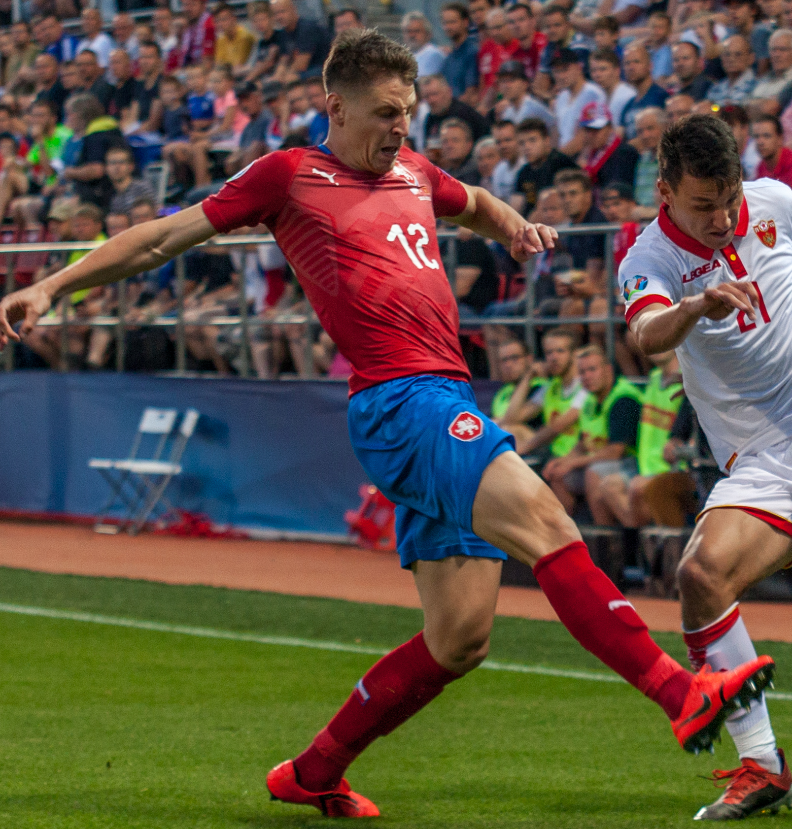 Lukáš Masopust & Risto Radunović at EURO 2020 Qualifying Round Czech Republic-Montenegro (10/6/2019, Ander Stadium, Olomouc) Personality rights warningAlthough this work is freely licensed or in the public domain, the person(s) shown may have rights that legally restrict certain re-uses unless those depicted consent to such uses. In these cases, a model release or other evidence of consent could protect you from infringement claims.